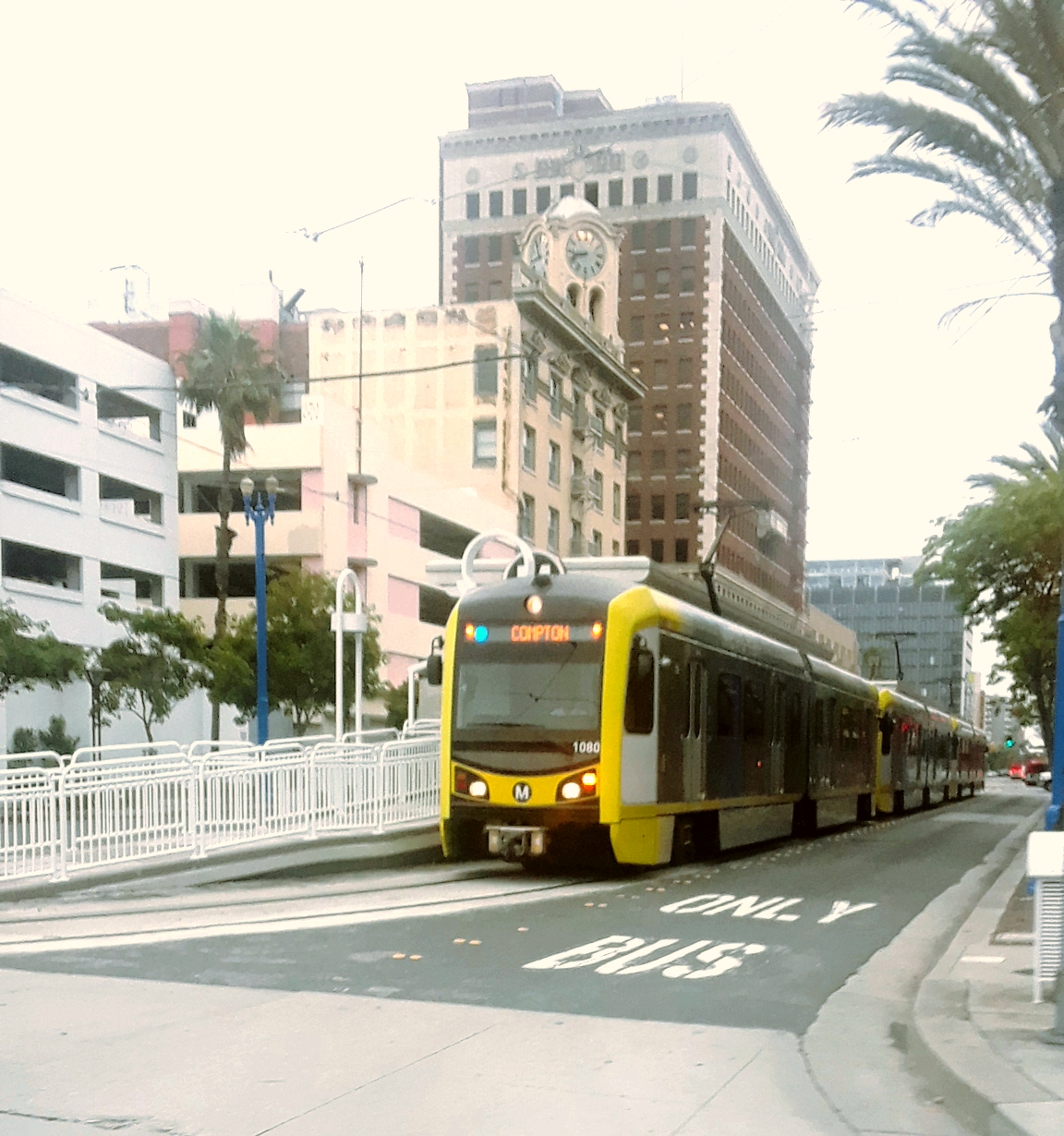 Blue Line (Line A) train at DTLB after construction completed.